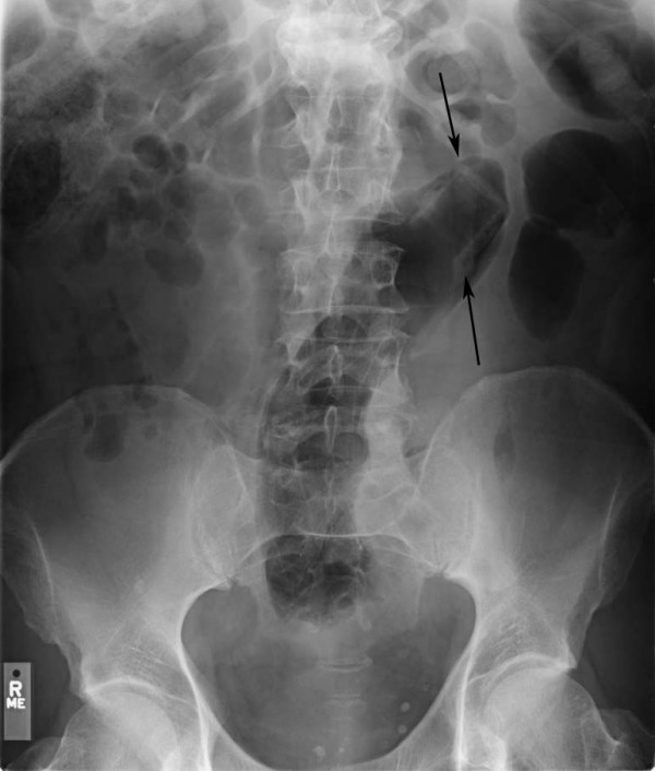 X-ray of abdomen 2 years prior showing outline of plastic soda bottle in sigmoid colon (arrows).